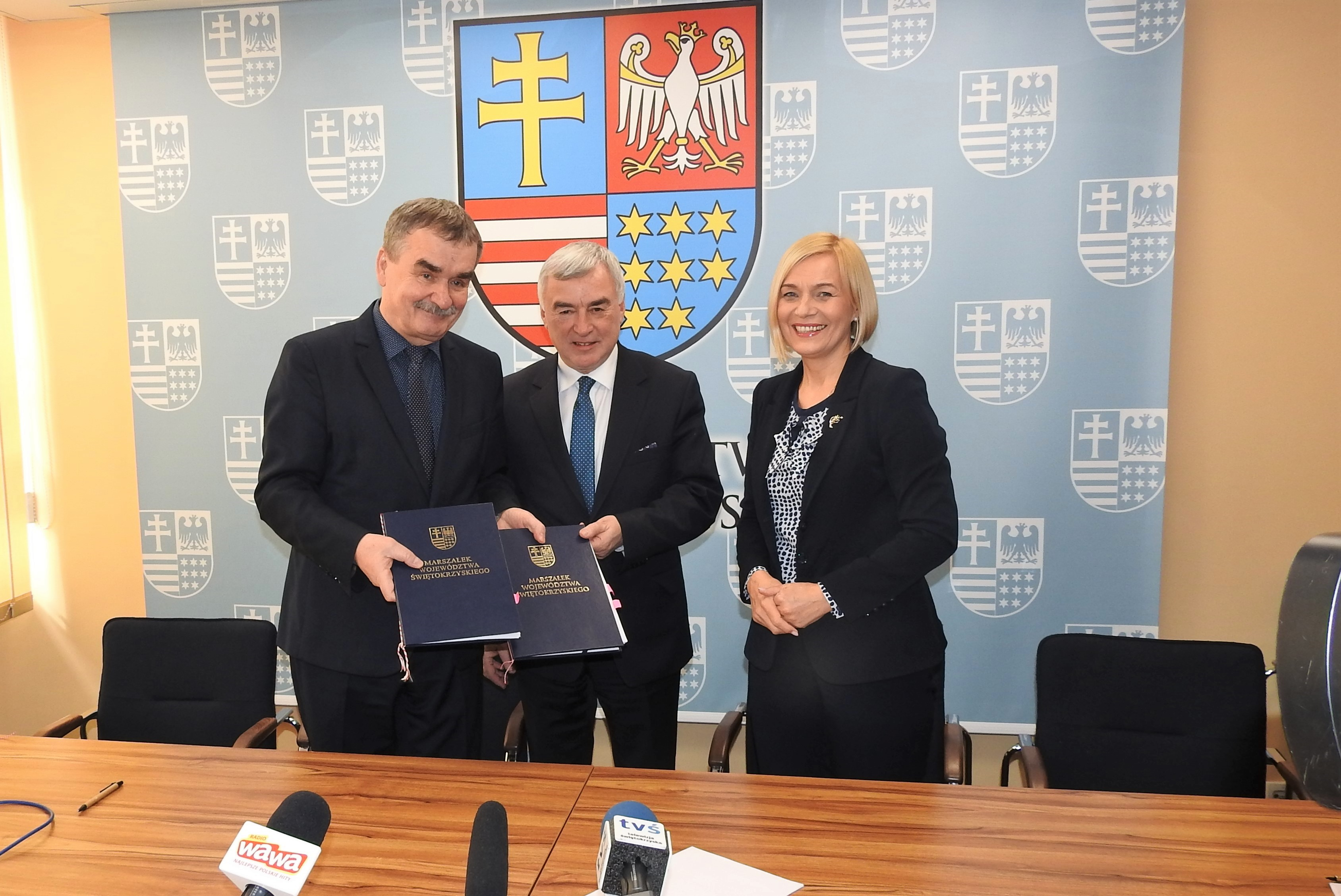 President of the Health Resort Wojciech Lubawski, marshal of Świętokrzyskie Province Andrzej Bętkowski and vice-marshal Renata Janik - signing of the contract with the Busko-Zdrój Health Resort joint-stock company - Kielce, Marshal Office, 29 March 2019